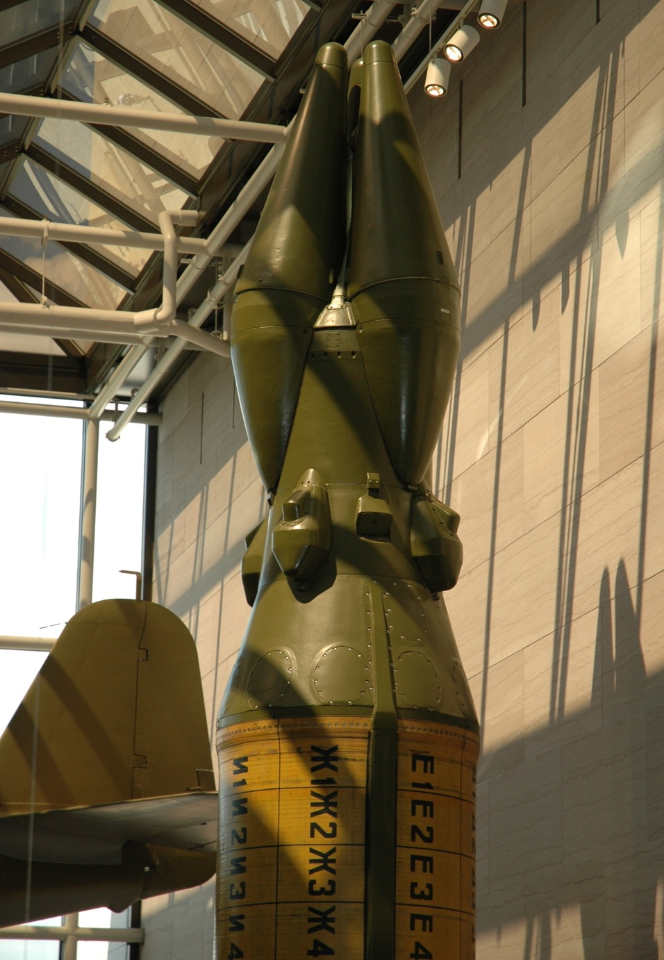 MIRV warheads on RSD-10 (SS-20) ballistic missile (National Air and Space Museum, Washington D.C.)